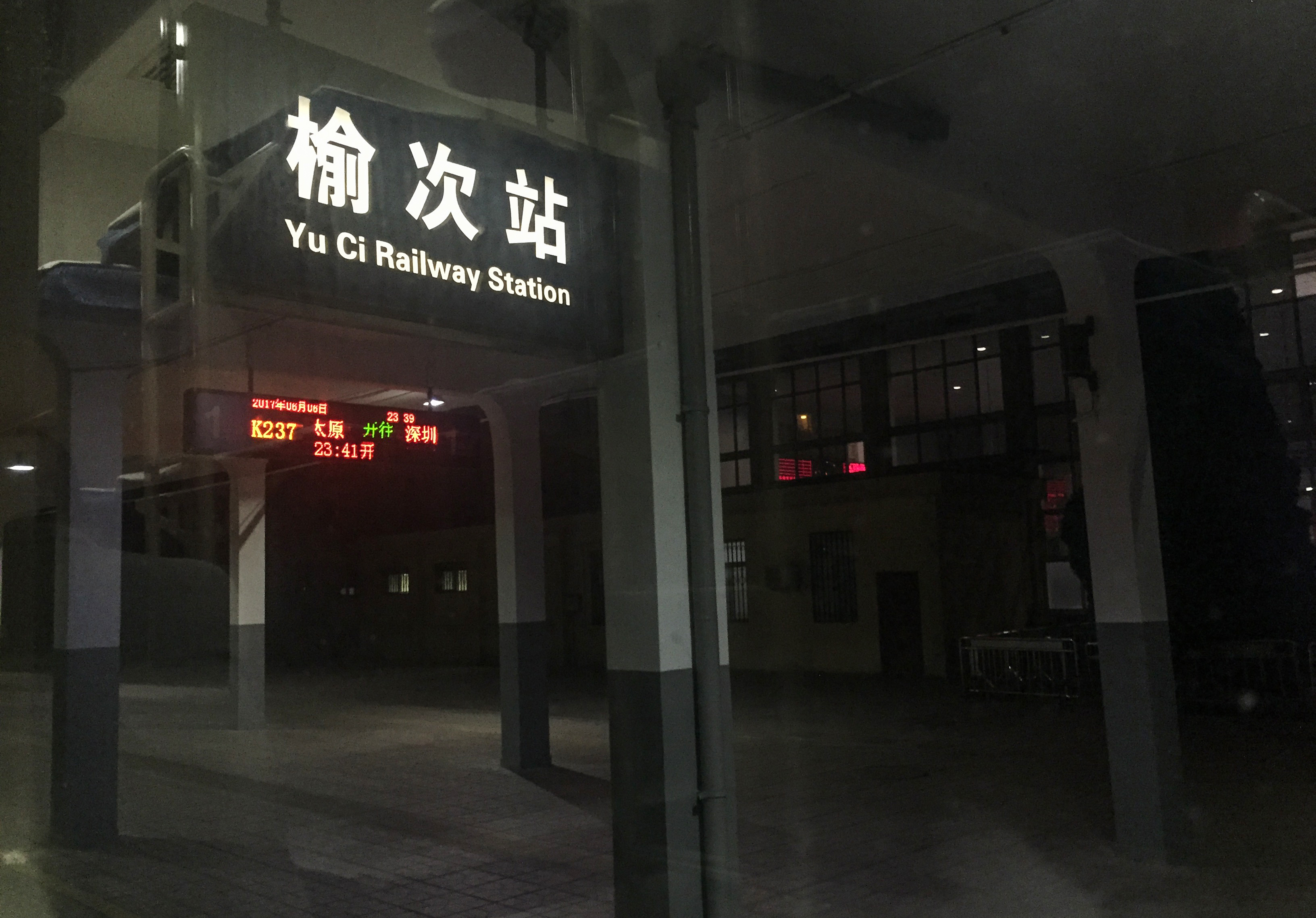 Taken from K237 during its first stopover.